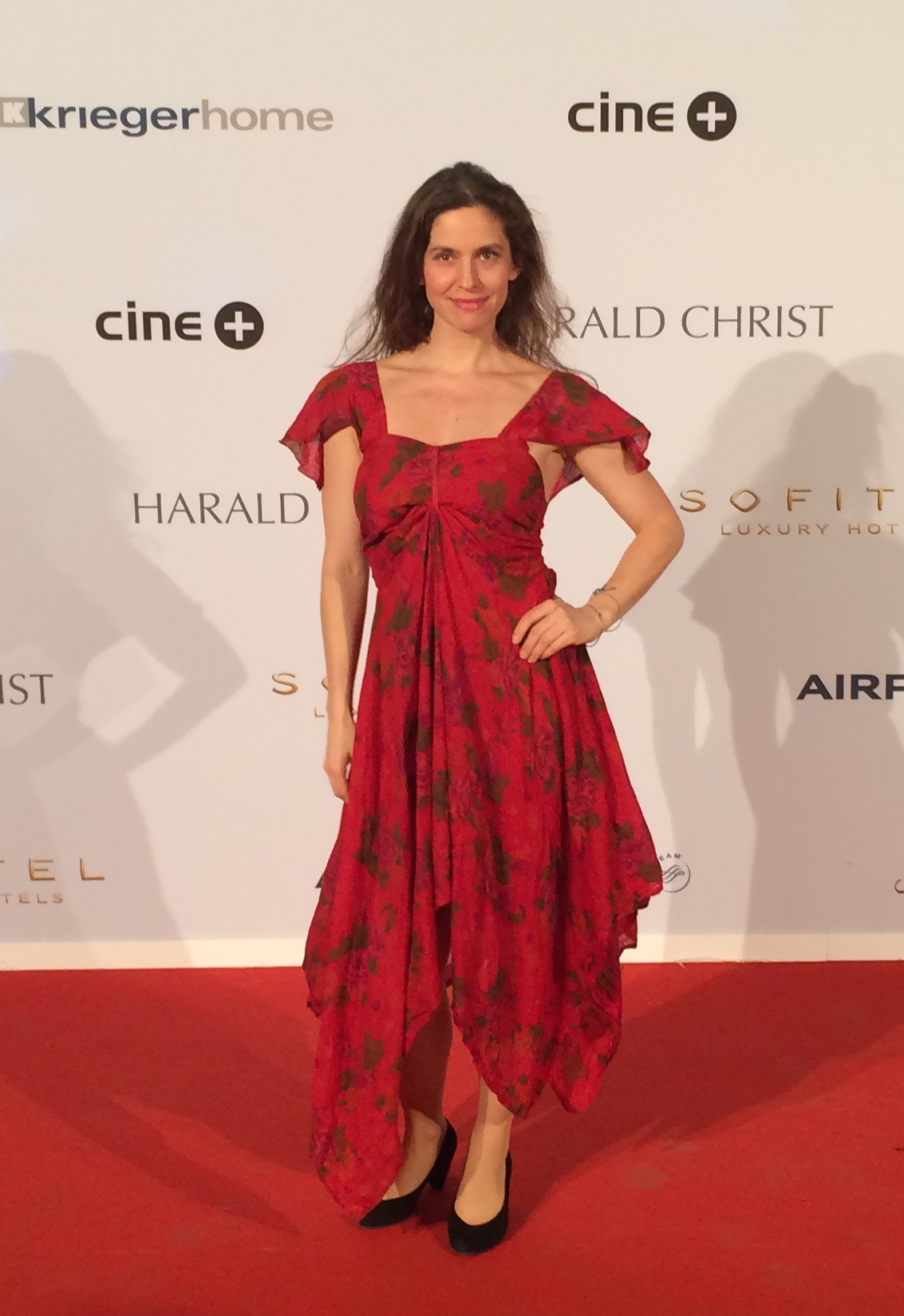 Birgit Stauber 2016